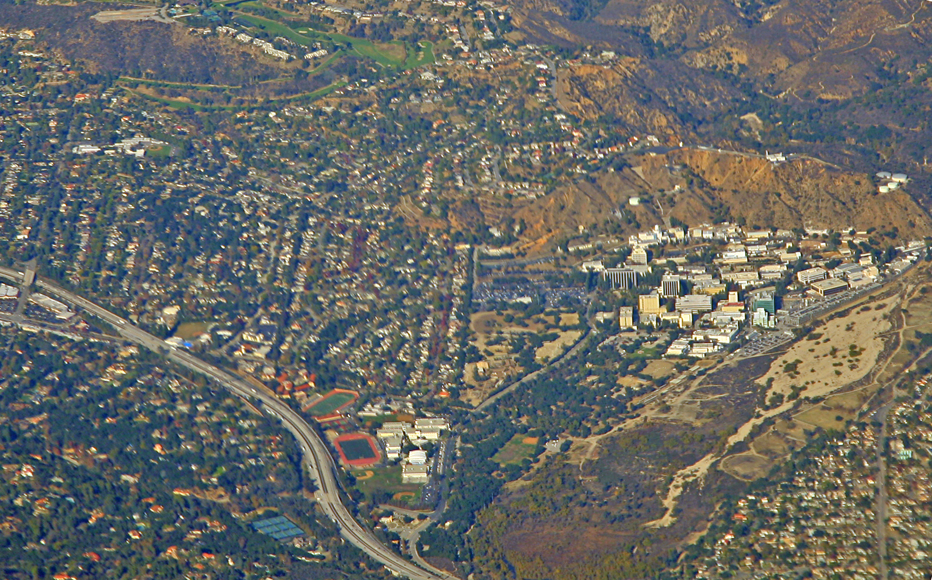 La Cañada Flintridge, the 210 Freeway and (on the right) the Jet Propulsion Laboratory.